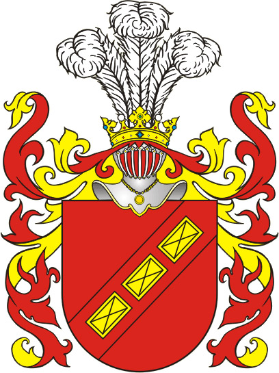 Herb Drya Clan File:POL COA Dryja.svg is a vector version of this file. It should be used in place of this raster image when not inferior. File:Herb Drya.jpg File:POL COA Dryja.svg For more information, see Help:SVG. In other languages This image was uploaded in the JPEG format even though it consists of non-photographic data. This information could be stored more efficiently or accurately in the PNG or SVG format. If possible, please upload a PNG or SVG version of this image without compression artifacts, derived from a non-JPEG source (or with existing artifacts removed). After doing so, please tag the JPEG version with Superseded|NewImage.ext and remove this tag. This tag should not be applied to photographs or scans. For more information, see BadJPEG .